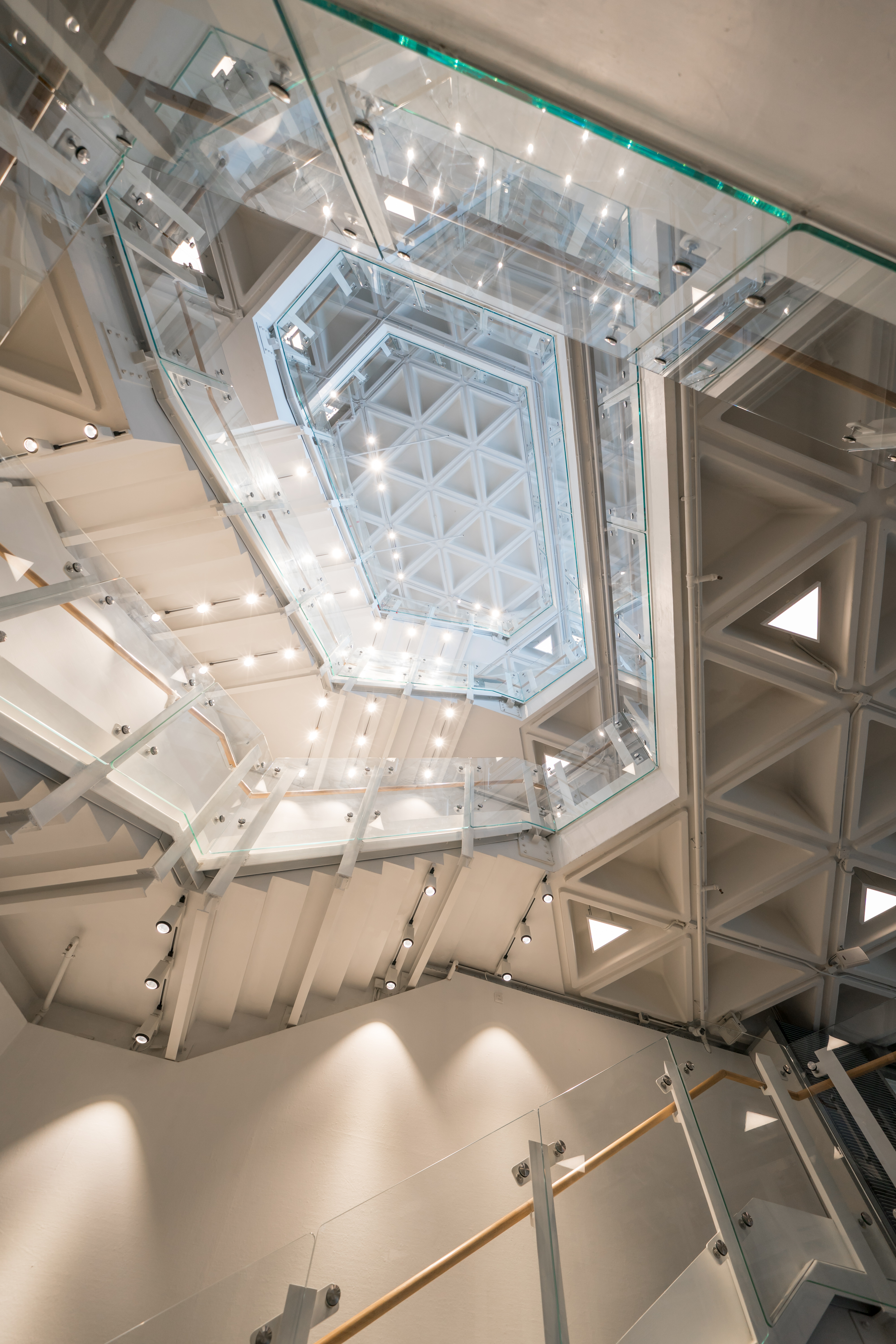 HKAC